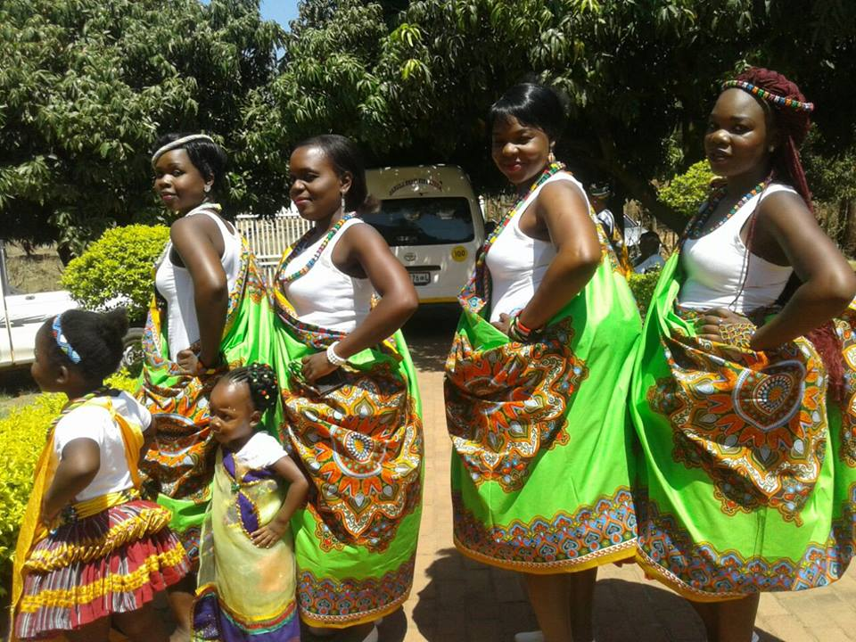 on the way to lobola celebration This is an image of music and dance from South Africa